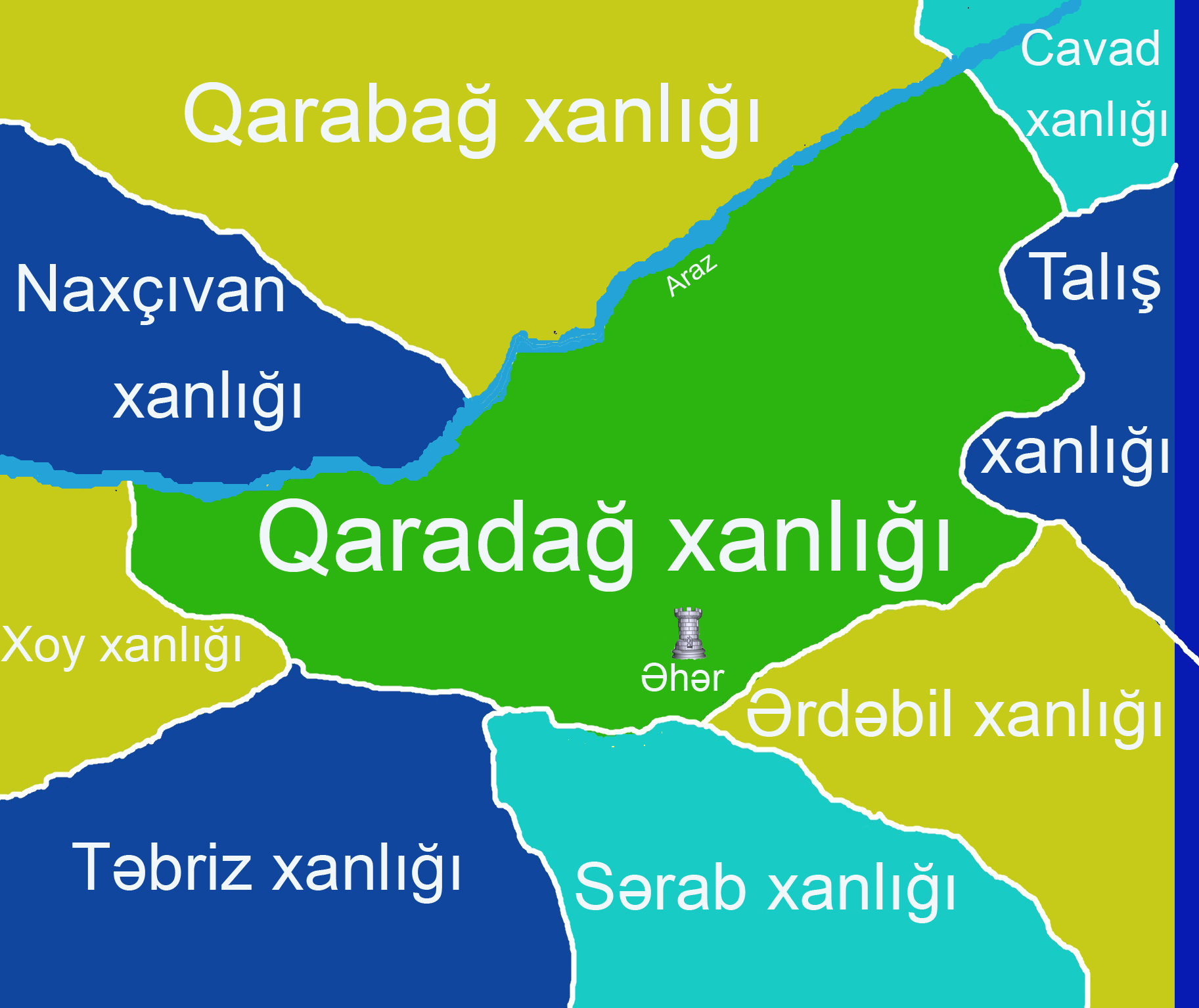 Karadagh Khanate. Territories of Northern and Southern Khanates (and Sultanates) of Azerbaijan in 18th-19th centuries Based on the original sources: 1."Frontier nomads of Iran: a political and social history of the Shahsevan" Author: Richard Tapper Cambridge University Press, 1997 ISBN 0 521 58336 5 hardback 2."Russian Azerbaijan, 1905-1920: The shaping of national identity in a muslim community" Author: Tadeusz Swietochowski Cambridge University Press, 1985 ISBN 0 521 26310 7 hardback ISBN 0 521 52245 5 paperback 3."Russia and Iran, 1780-1828" Author: Muriel Atkin University of Minnesota Press, 1980 ISBN 0 8166 0924 1